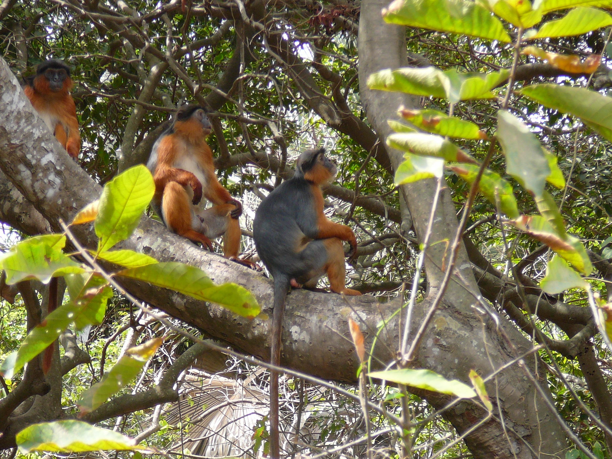 Temminck's red colobus